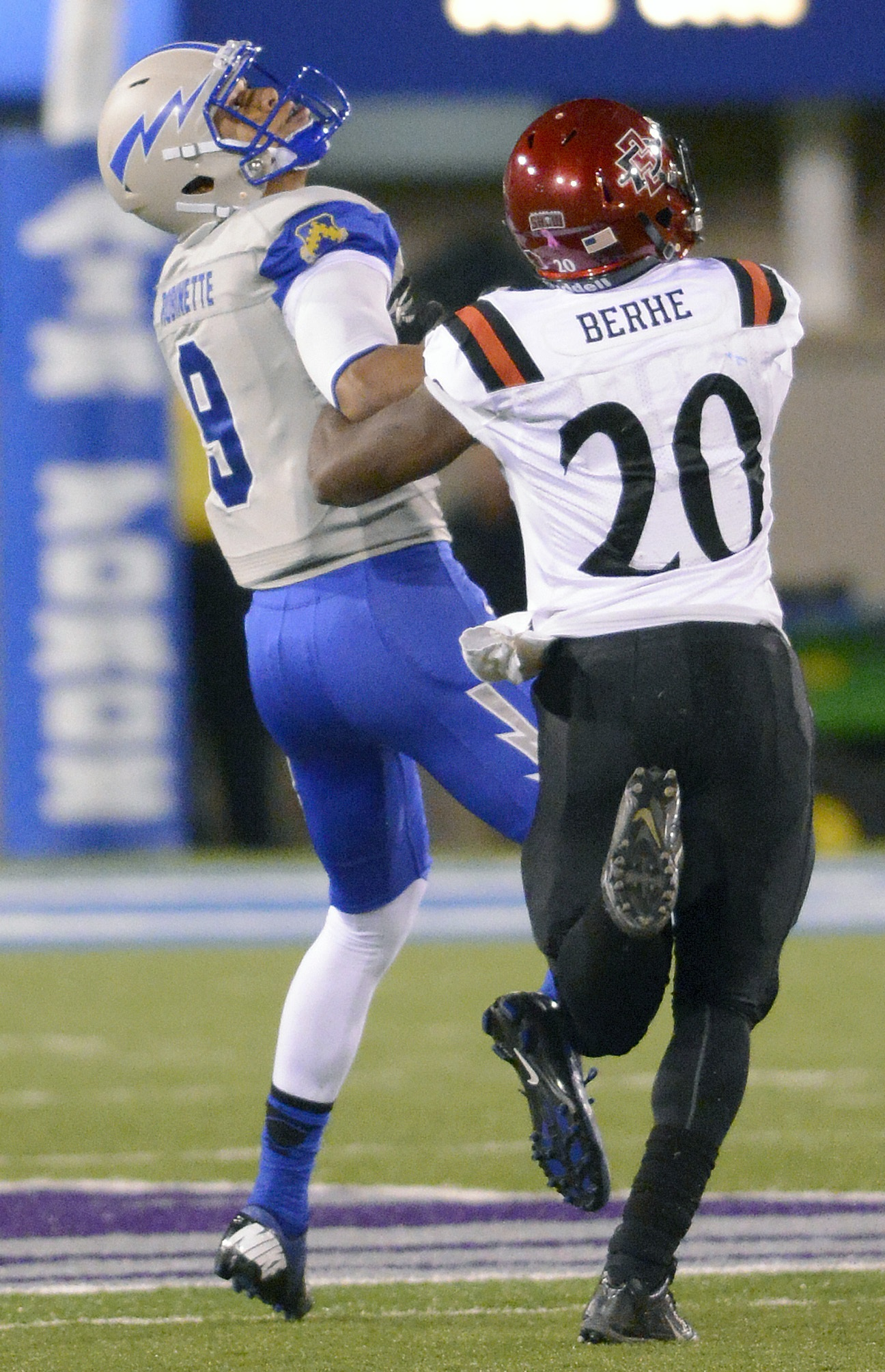 Wide receiver Jalen Robinette, a freshman, is lofted a pass as Air Force meets Mountain West Conference rival San Diego State at the U.S. Air Force Academy's Falcon Stadium in Colorado Springs, Colo., Oct. 10, 2013. The Aztecs scored three touchdowns in the fourth quarter to defeat Air Force 27-20. Robinette had one catch for 39 yards in the contest. Air Force is off next weekend as they host Notre Dame on Oct. 26, 2013, at Falcon Stadium. (U.S. Air Force Photo by Mike Kaplan/Released)